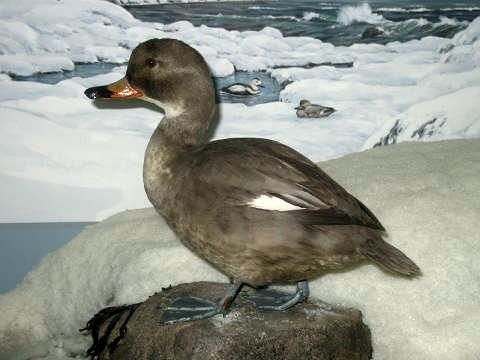 Description: Labrador Duck - Source: own work - Location: American Museum of Natural History, New York - Author: self, User:Stavenn